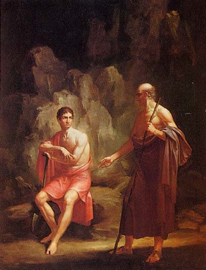 Oil painting Timon of Athens.